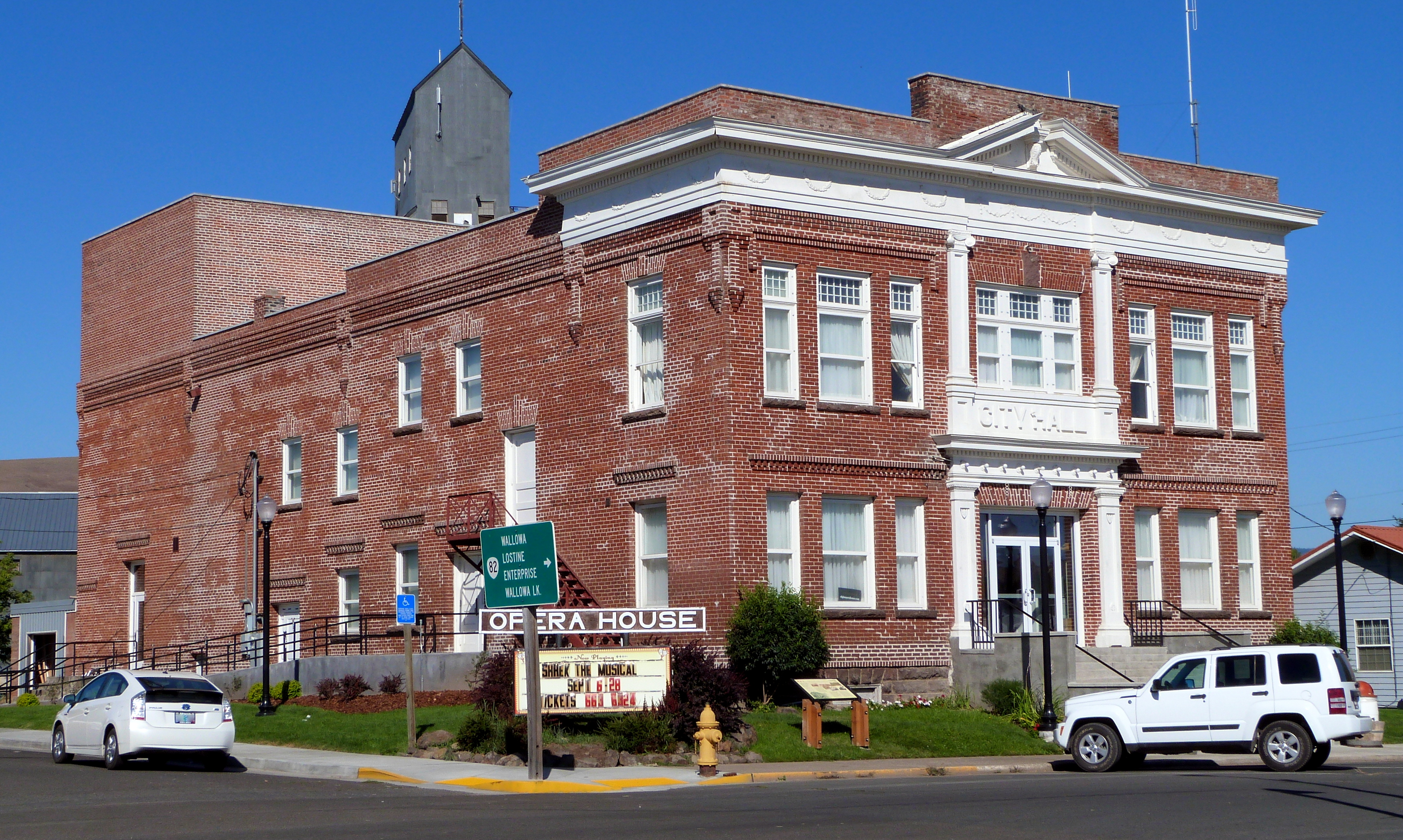 The historic Elgin City Hall and Opera House (built 1912), located at 100 North 8th Street in Elgin, Oregon, United States, is listed on the US National Register of Historic Places (NRHP). It no longer serves as city hall (which is now in the building with gray siding at the right edge of the photo), but continues as a museum and theater.